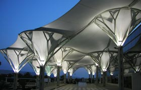 Entrance to a terminal at Split Airport